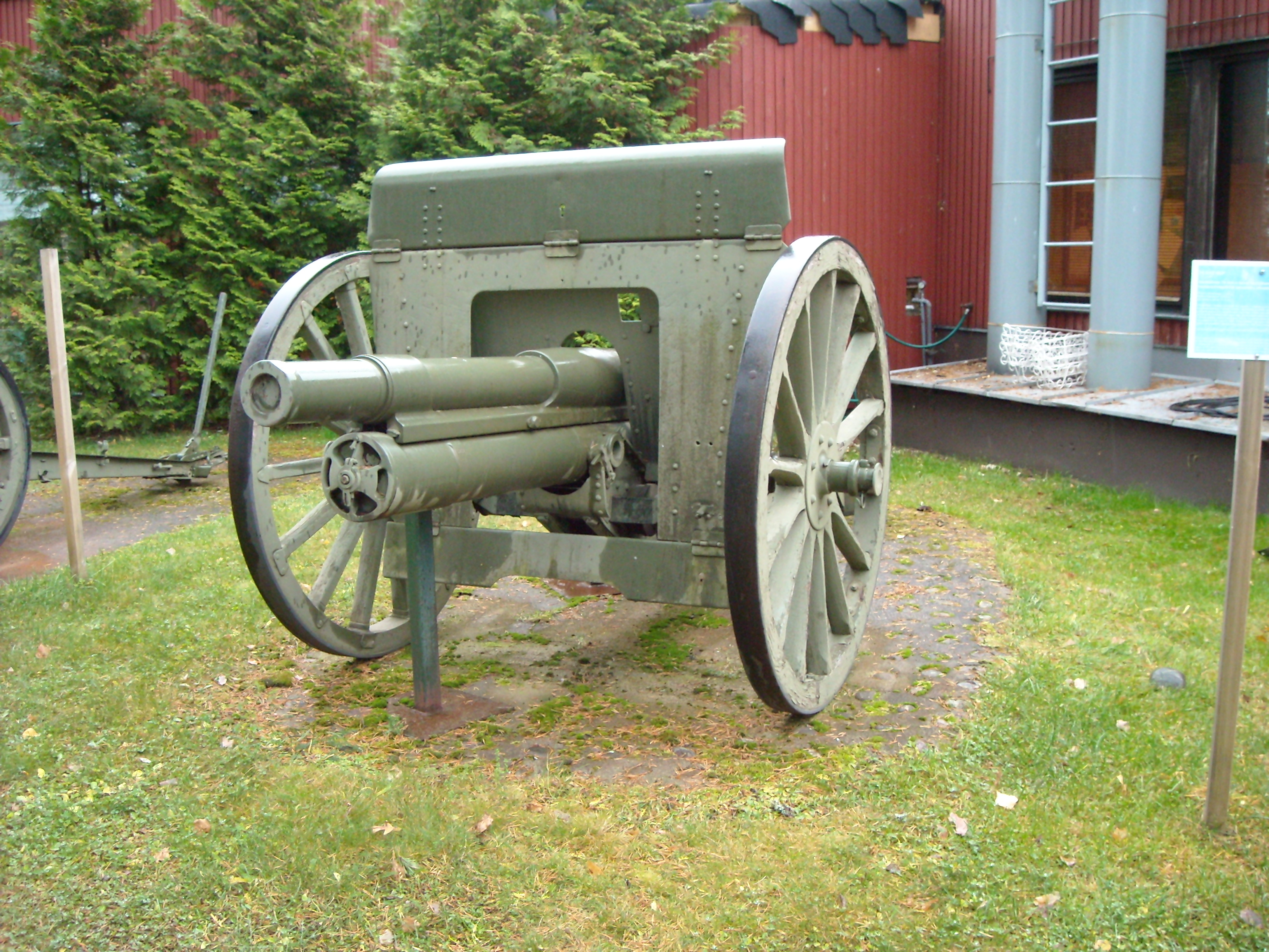 Russian made 76 mm cannon from year 1902. Used in (for instance) Defence Forces on Finland at WW II.